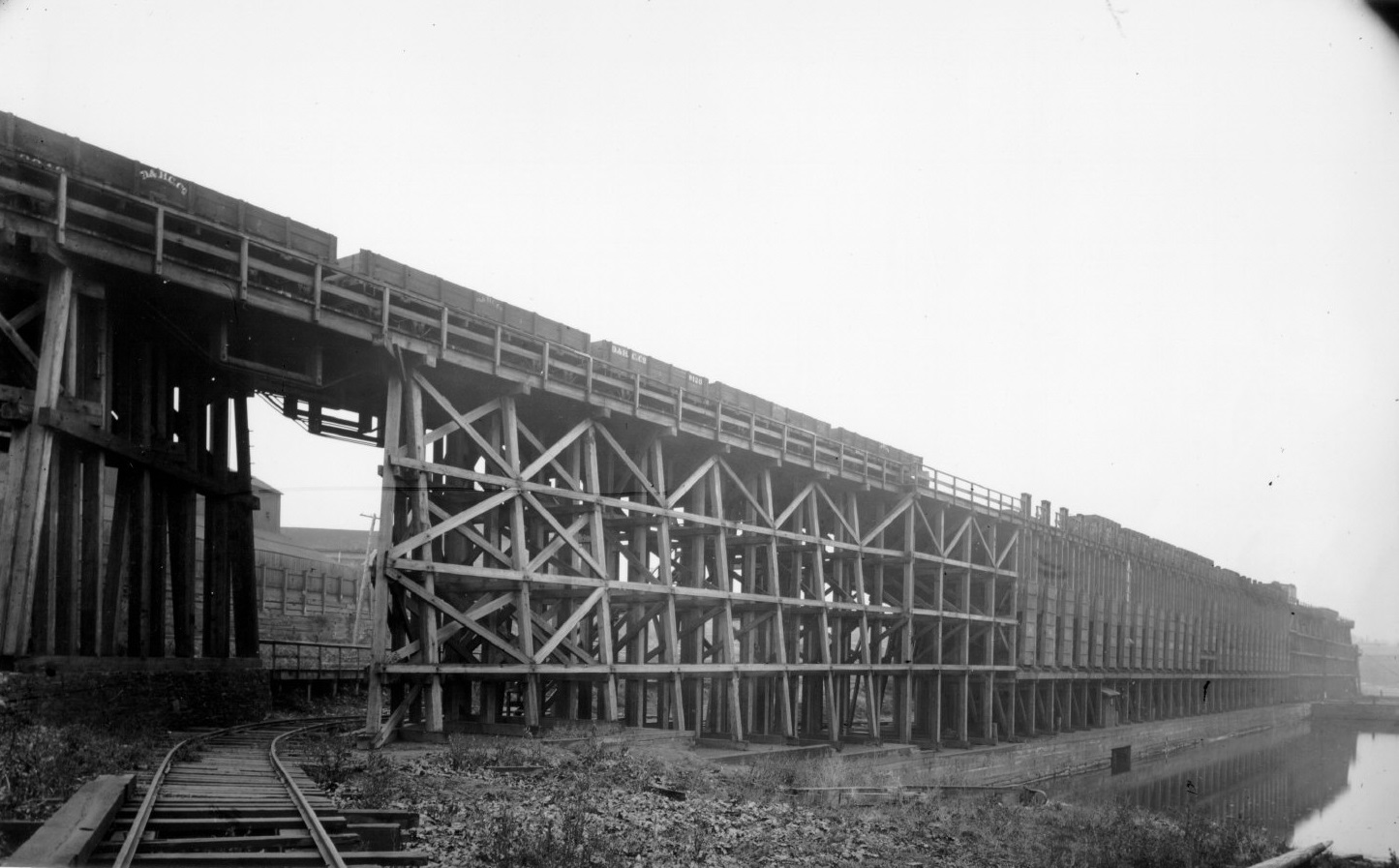 The Port of Oswego's 480-foot-long (150 m) coal trestle on lake Ontario. It was replaced in 1935 with a coal dumper.